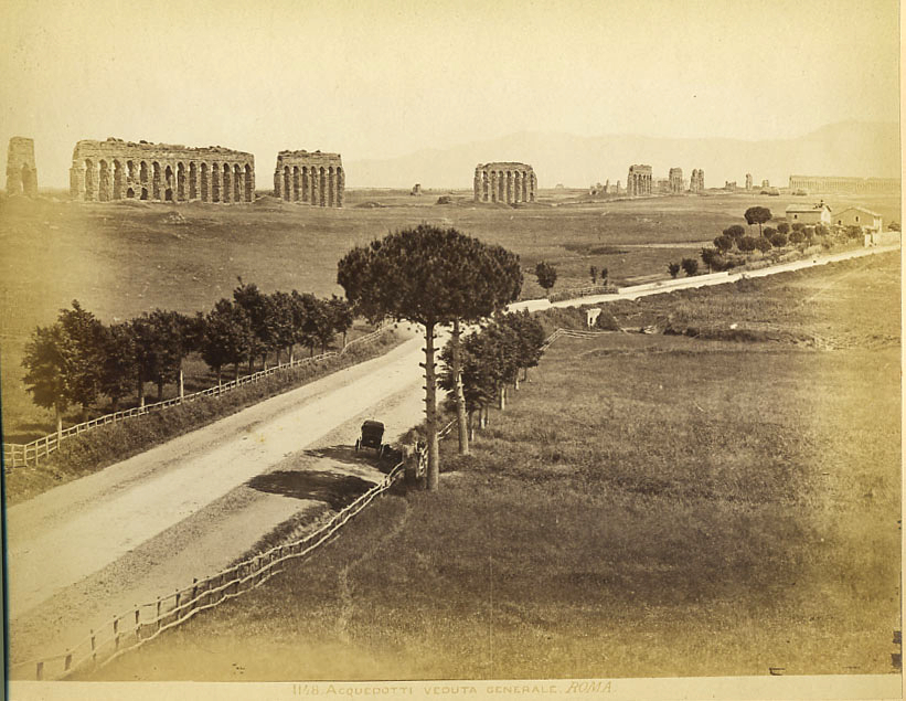 Fotografia Anderson, Rome - "Aquectuts. Overall view - Rome". Catalogue # 1148. Alternative take. Alternative take.